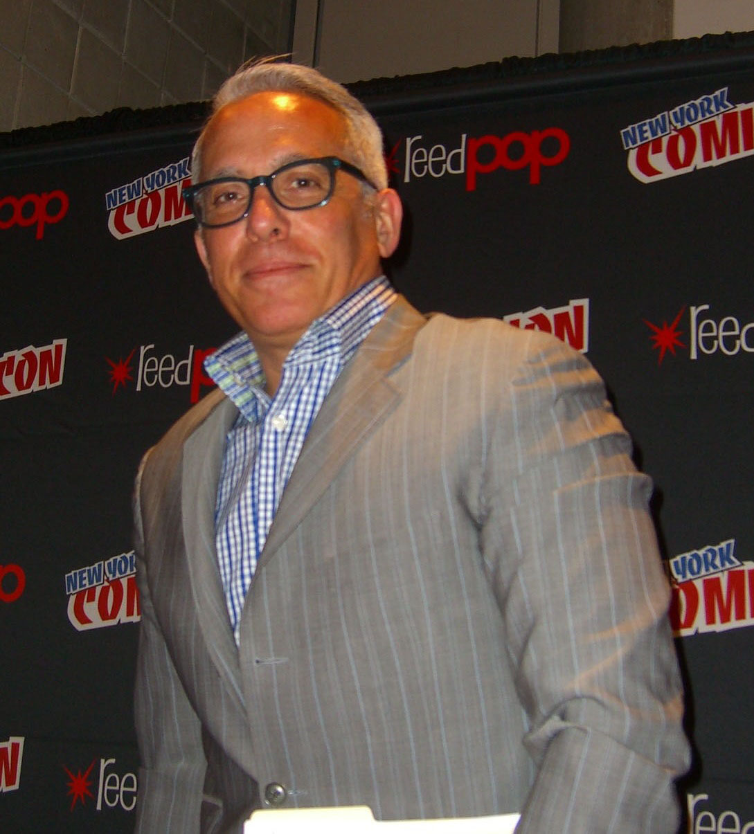 Celebrity chef and restauranteur Geoffrey Zakarian (left) on Day 2 of the 2012 New York Comic Con, Friday October 12, 2012 at the Jacob K. Javits Convention Center in Manhattan. This photo was created by Luigi Novi. It is not in the public domain, and use of this file outside of the licensing terms is a copyright violation.